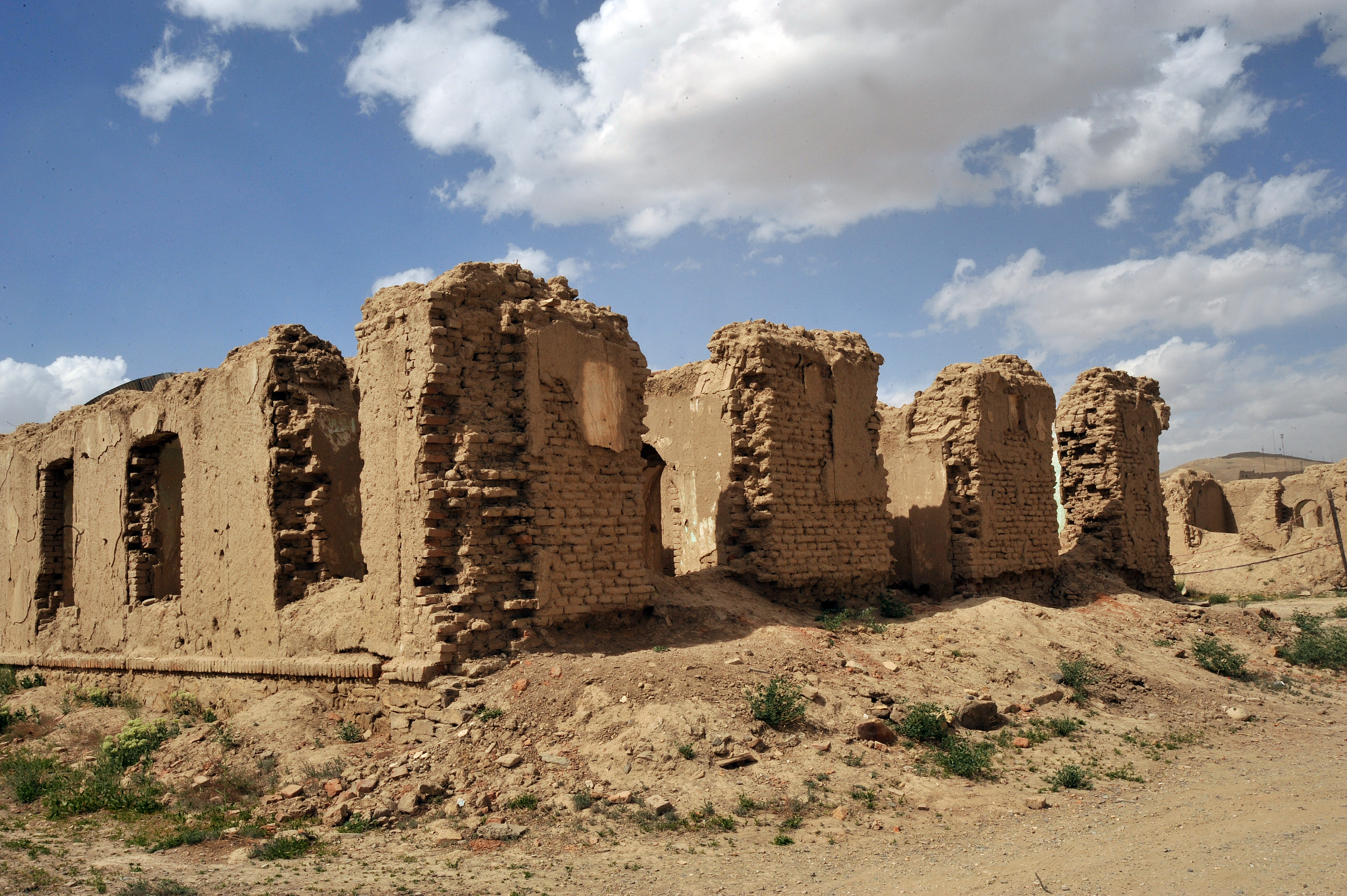 Old Ghazni City in the Ghazni province of Afghanistan is photographed April 18, 2010. Members of the Ghazni Provincial Reconstruction Team are visiting Old Ghazni city.